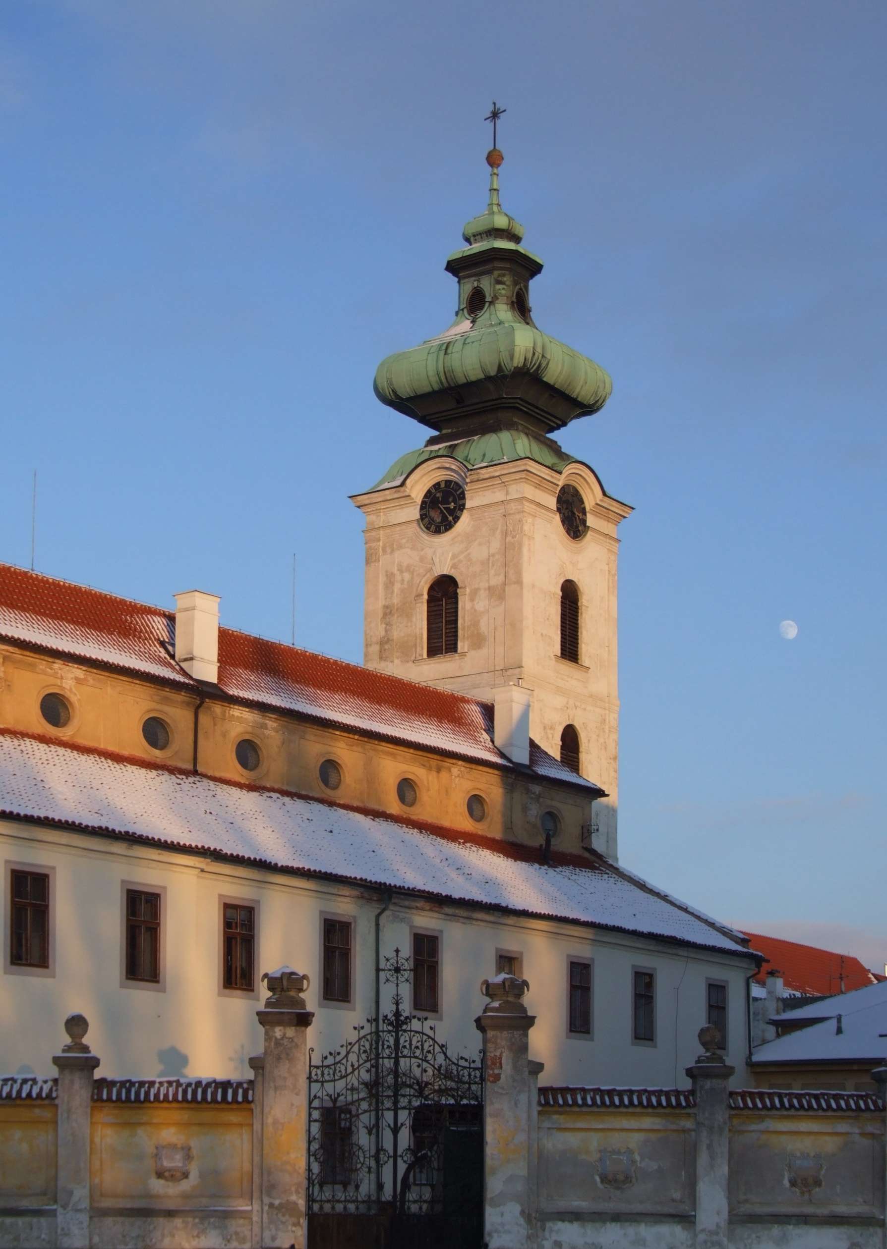 Presentation of Virgin Mary Church in České Budějovice - tower